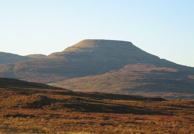 Healabhal Mhor. One of two distinctive flat topped "tables" near Dunvegan formed from horizontally stratified basalt. This is a view of the eastern slopes of the mountain.